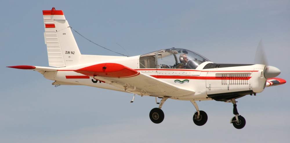 Zlin Z-142 aircraft